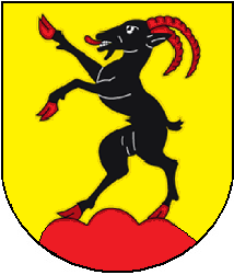 Coat of arms of Mettembert, Canton of Jura, Switzerland (Source: Symbol on the wall of the municipal administration)